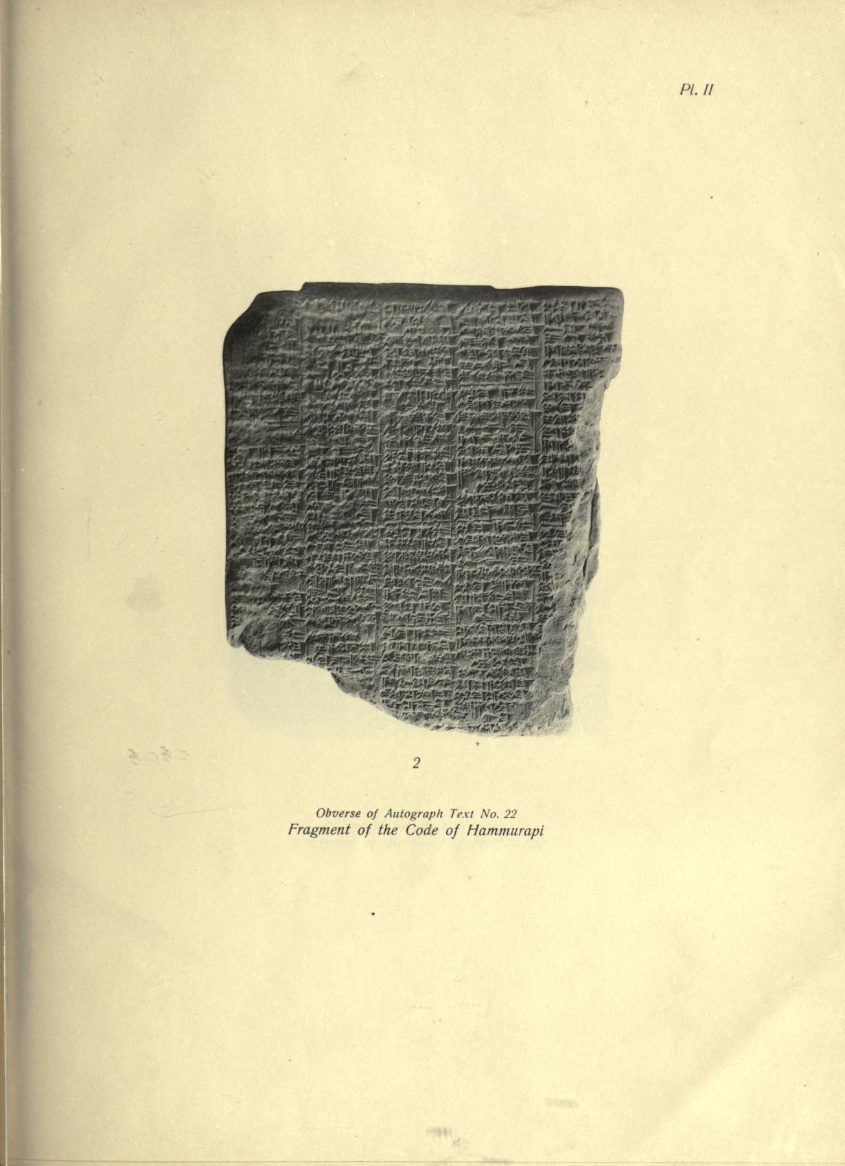 Fragment of the Code of Hammurabi